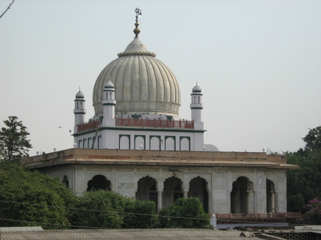 Tomb of Ahmad Sirhindi, Rauza Sharif Complex, Sirhind, Fatehgarh Sahib, Punjab.